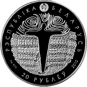 "The Battle of Grunwald. The 600th Anniversary" Silver commemorative coins, denomination: 20 rubles, Belarus